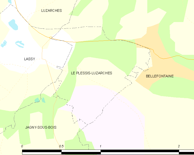 Map of French municipality Le Plessis-Luzarches